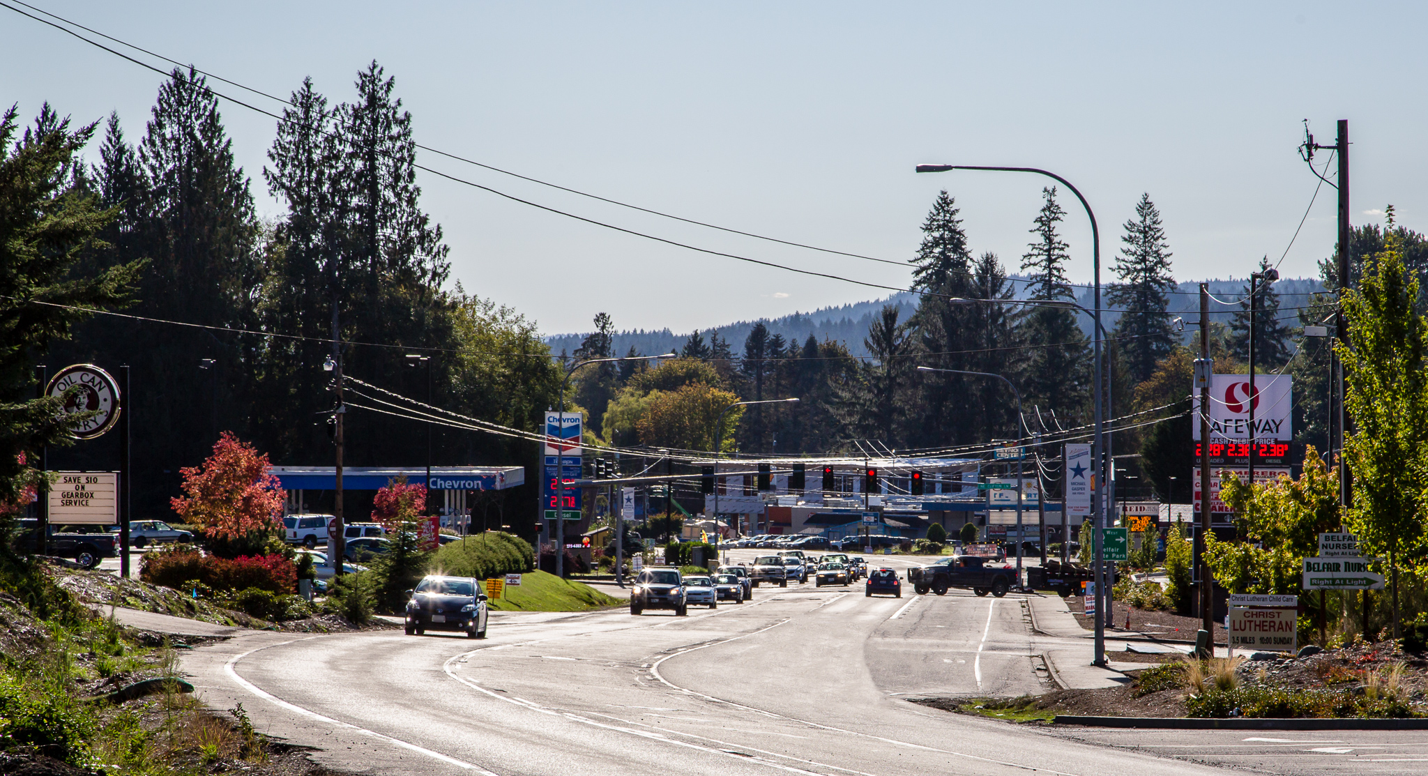 State Route 3 through Belfair, WA